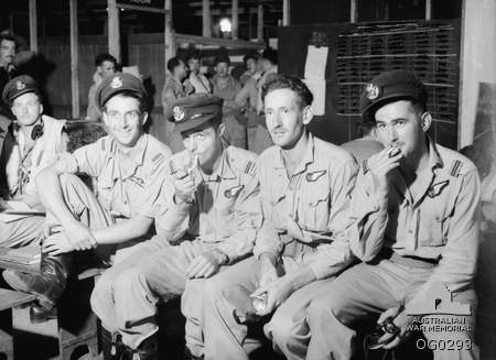 Members of the 100th squadron of the RAAF. Syd Anderson (centre) was a notable Australian rules footballer who died later in WWII.